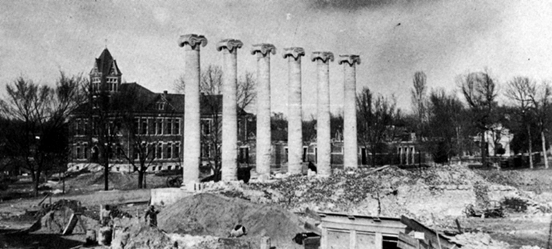 The Columns stand in the rubble of Academic Hall following the fire of 1892.